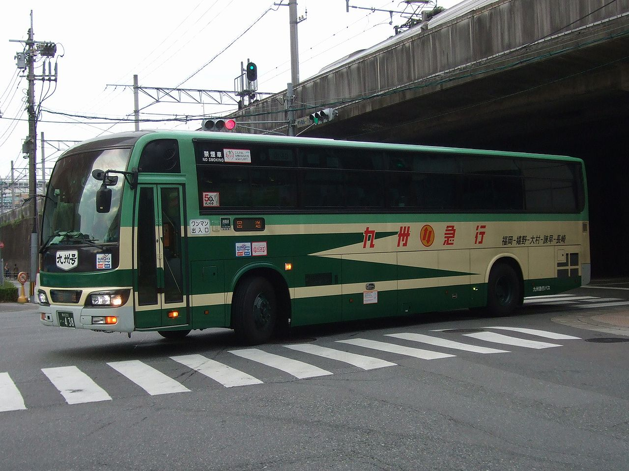 Kyushu-Go 50th anniversary bus Company:Kyushu Kyuko Bus Use:transit bus(highway bus) Car license:NS 200 KA 438 Chassis manufacturer:Nissan Diesel Type:Space_Arrow Coachbuilder:Nishinippon Shatai Kogyo Location:in Hakata Ward, Fukuoka City, Fukuoka, Japan.